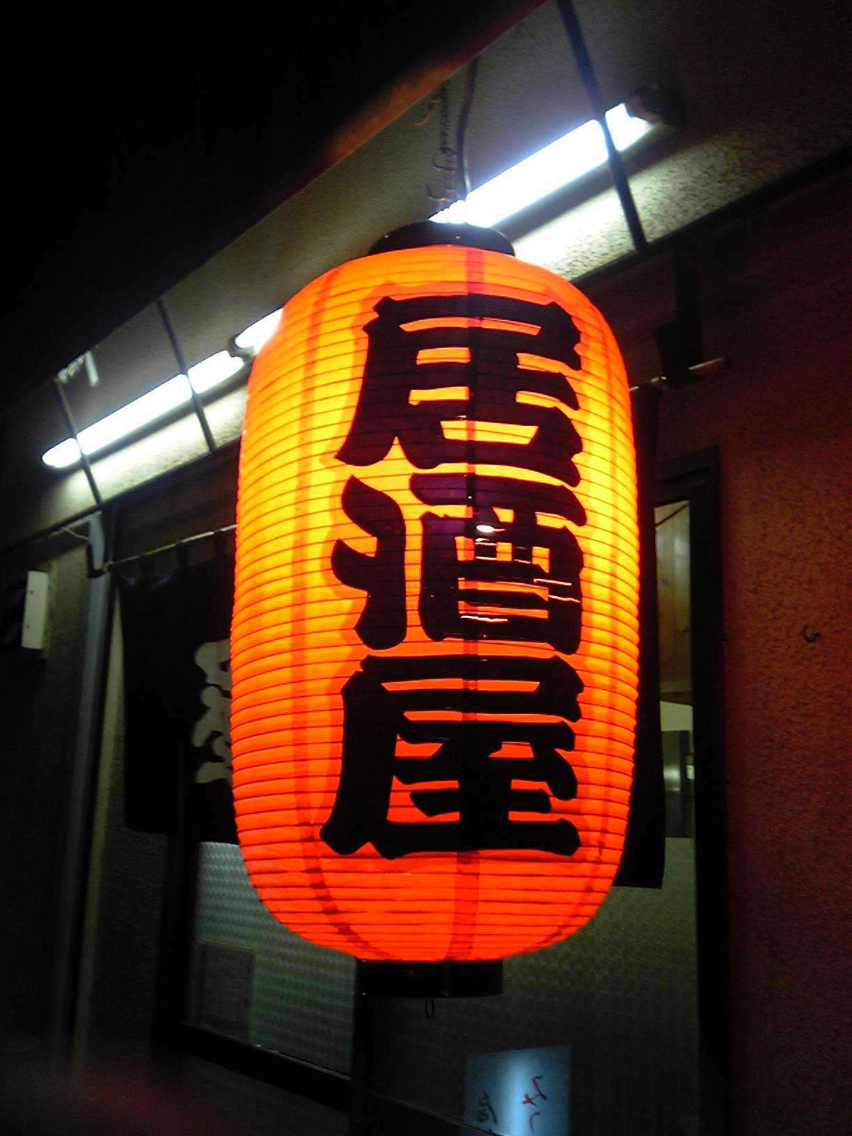 Aka-chochin lantern from a Japanese izakaya tavern.